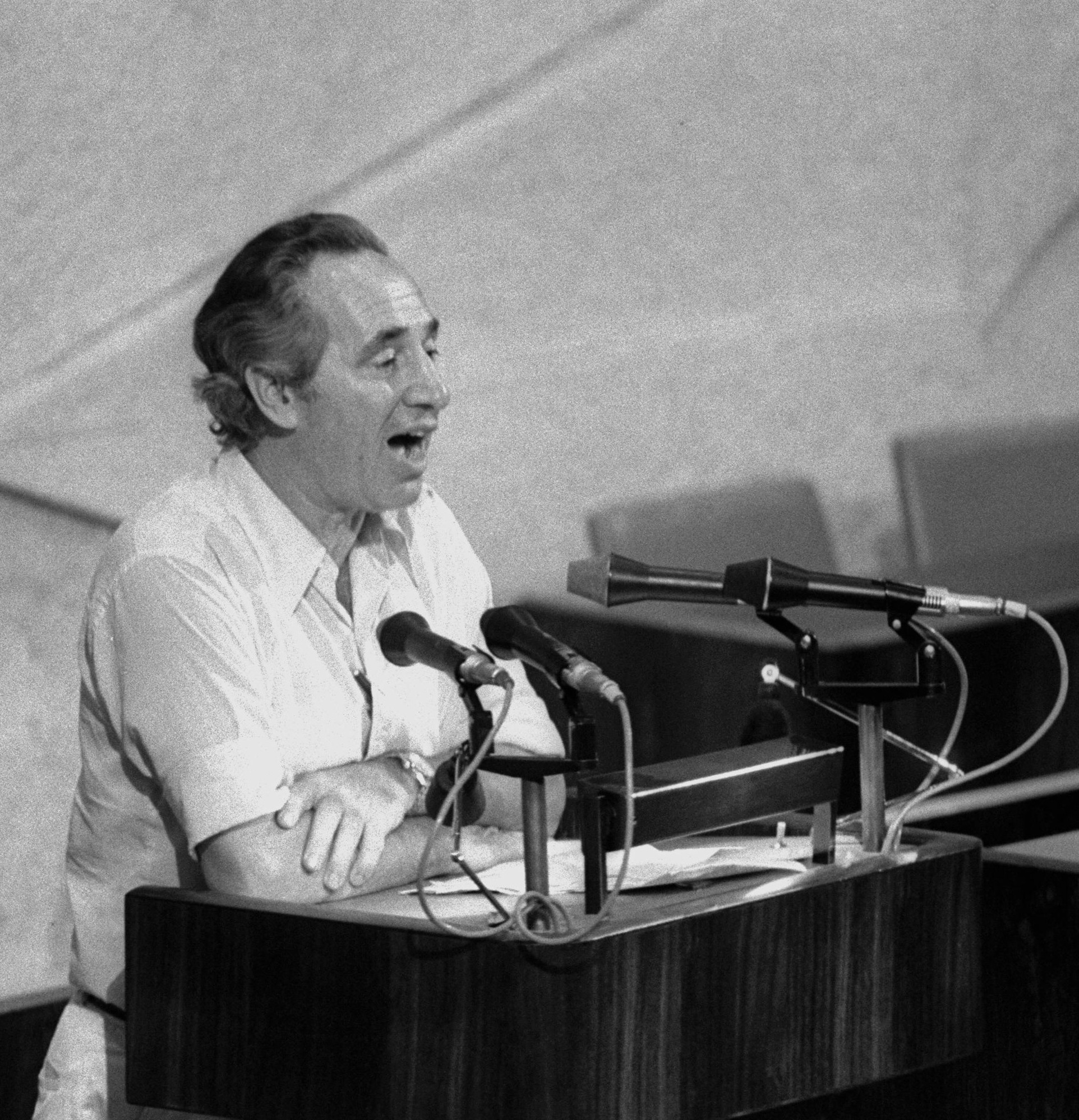 Defense Minister Shimon Peres speaks during the special Knesset session on the interim agreement with Egypt. שר הבטחון, שמעון פרס, נואם במהלך ישיבה מיוחדת של הכנסת באשר להסכם הביניים עם מצרים Photo: Moshe Milner (1946–) Alternative names Miylner, Moše; Milner, Mosheh; Moshé Milner; Milner, M.; Mîlner, Moše; Miylner, MošehDescriptionIsraeli photographerצלם ישראליDate of birth 1946 Location of birth Germany Authority control : Q28750411 VIAF: 100999744 ISNI: 0000 0001 0804 0507 LCCN: n82072104 GND: 115699732 BNF: 15548788n WorldCat creator QS:P170,Q28750411 , 09/03/1975